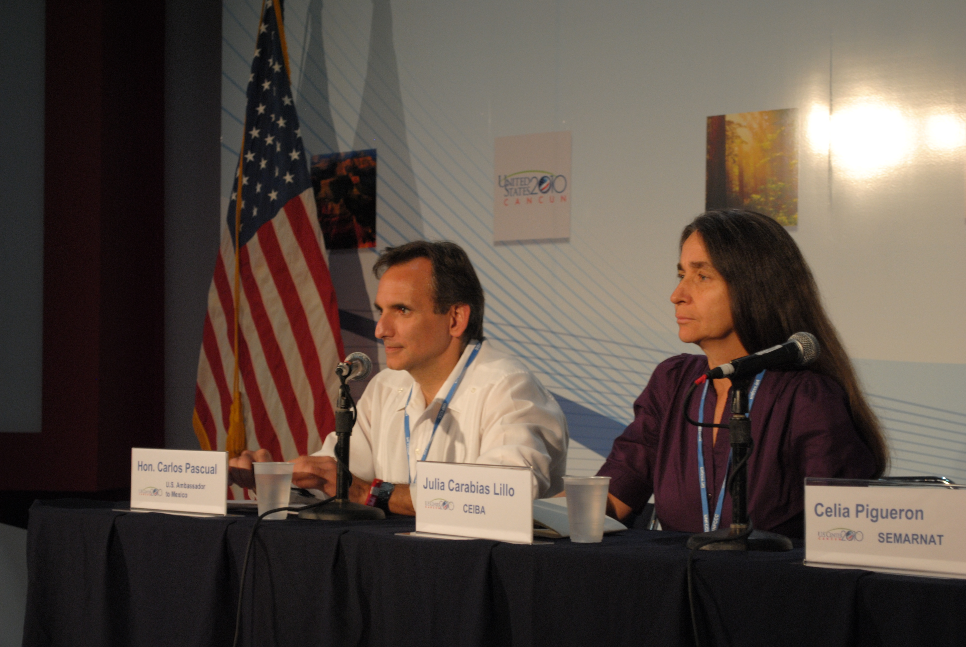 U.S. Ambassador to Mexico Carlos Pascual and CEIBA's Julia Carabias Lillo listen to a question from the audience at the U.S. Center at COP-16 in Cancun, Mexico, on December 8, 2010. [State Department photo/ Public Domain]